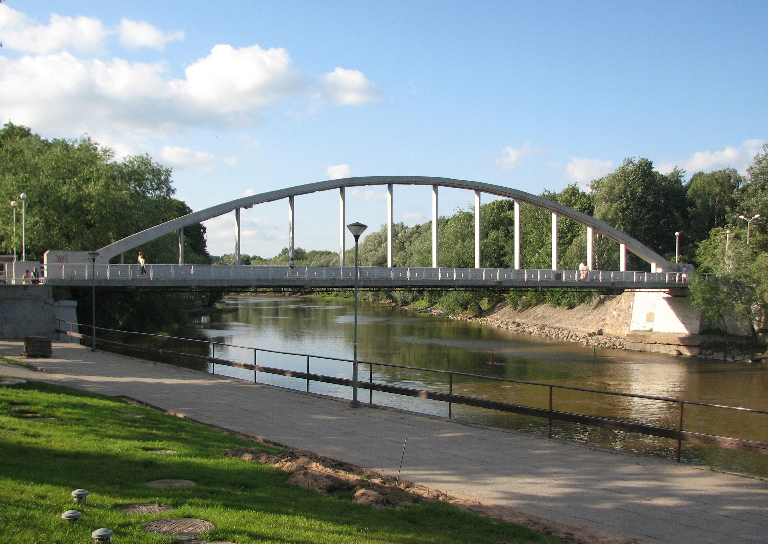 Pedestrians arch bridge in Tartu over EmaJõgi (river), Estonia